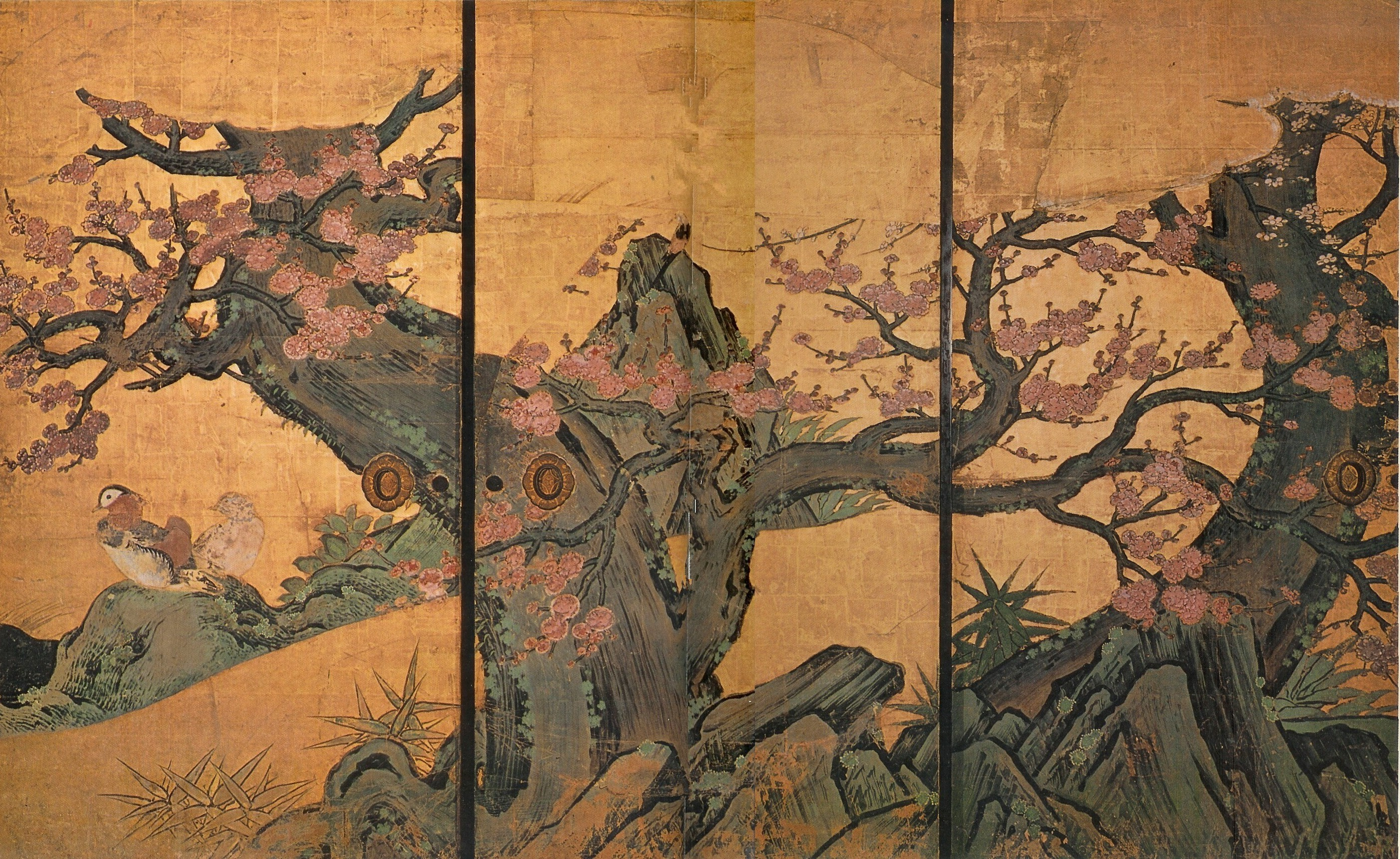 Kano Sanraku Plum